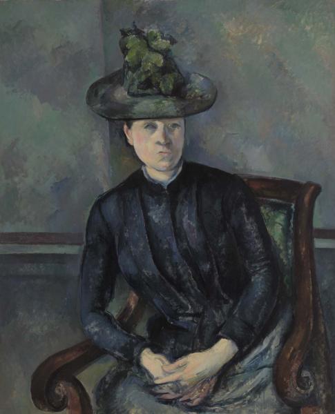 Paul Cézanne, Madame Cézanne with Green Hat (Madame Cézanne au chapeau vert)